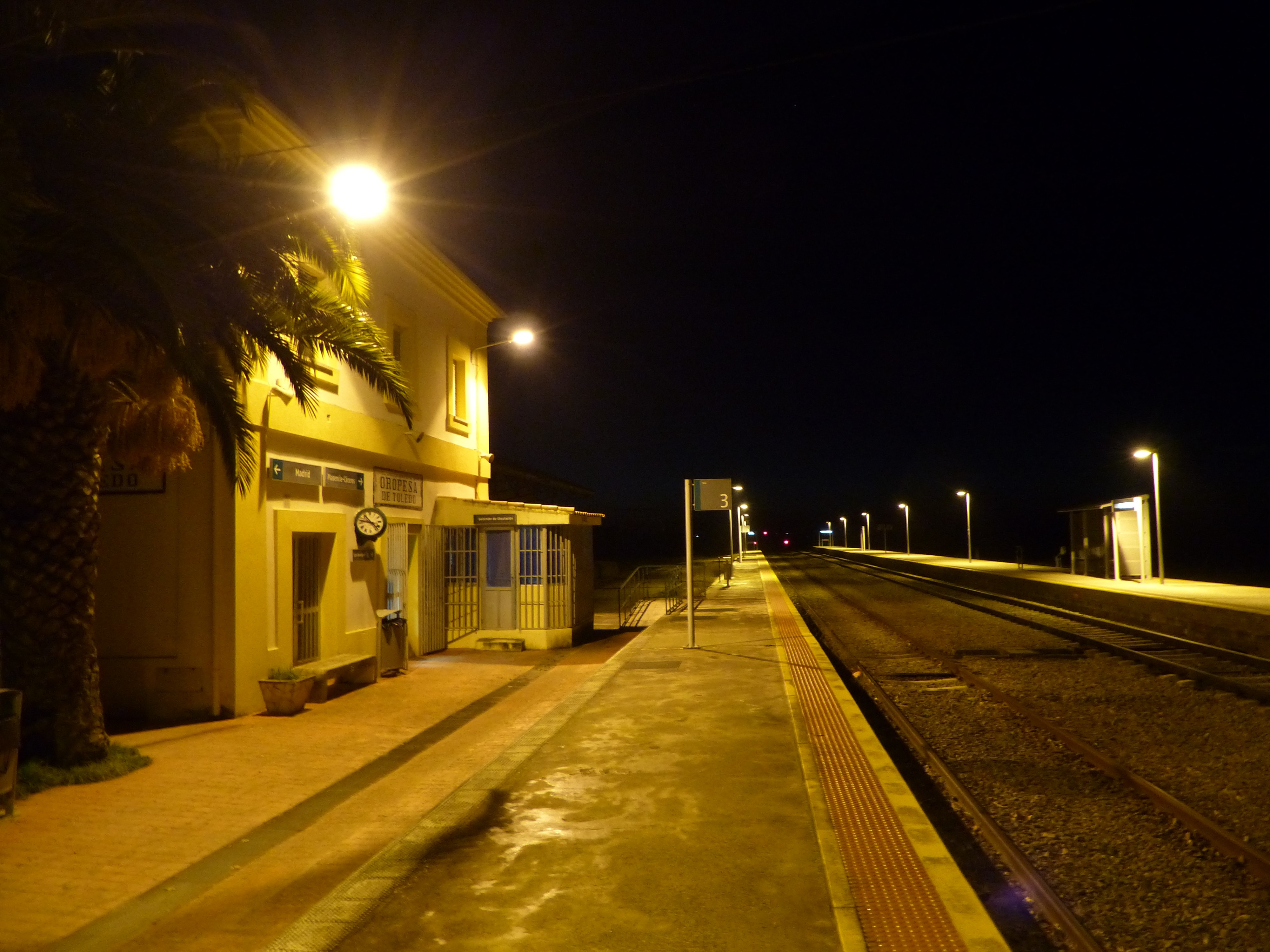 Railway station of Oropesa de Toledo